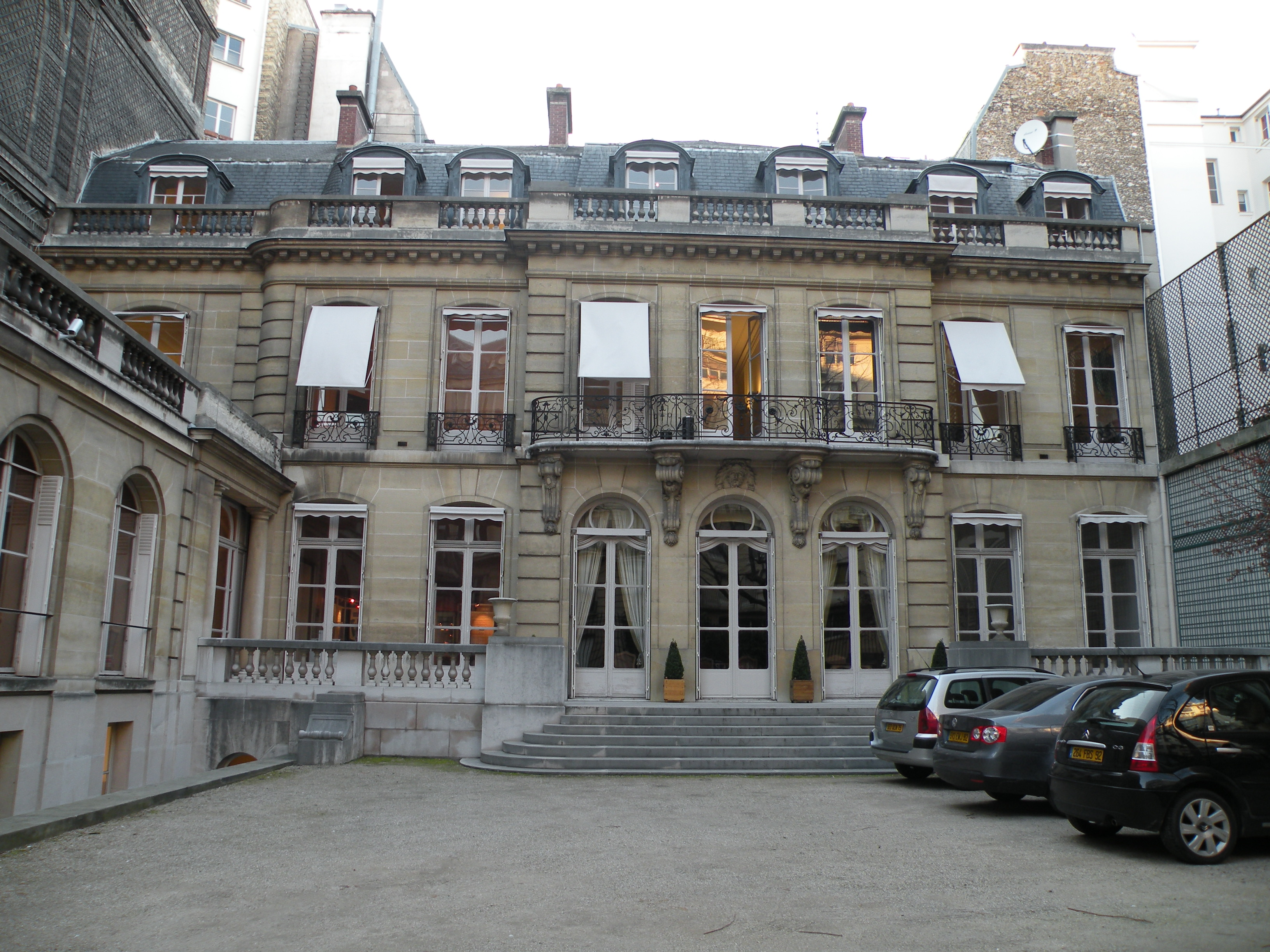 The Musée de la Contrefaçon in Paris